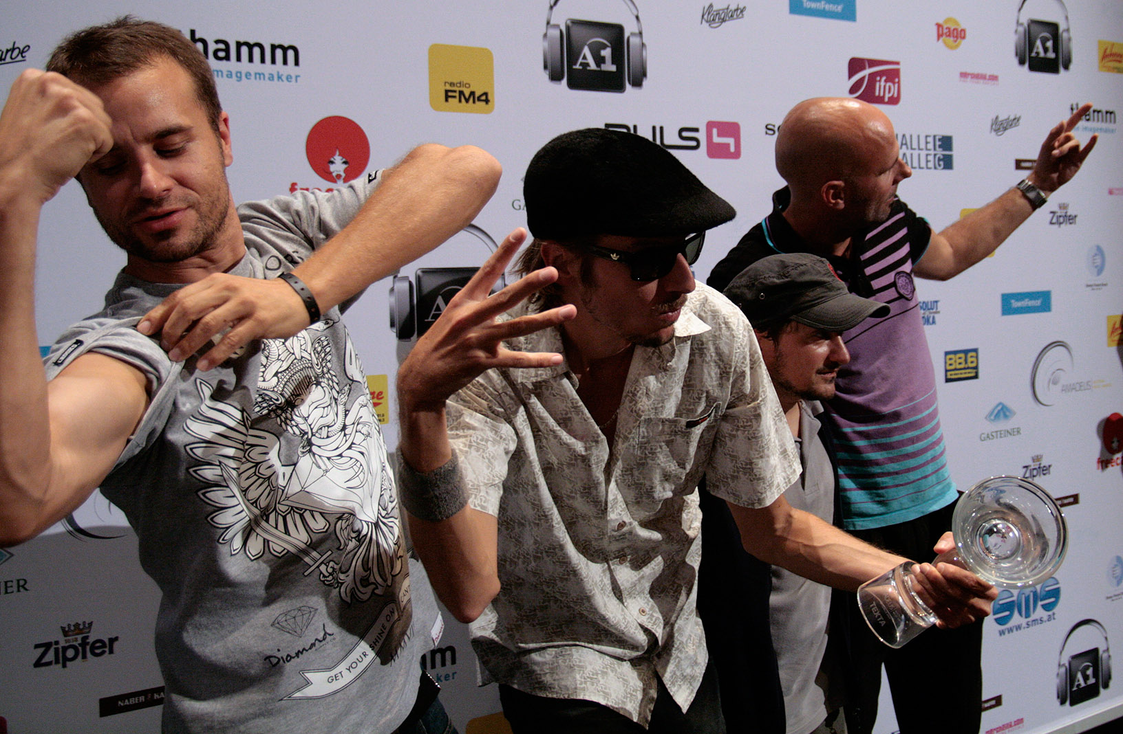 Texta at the Amadeus Austrian Music Award (Museumsquartier, Vienna)